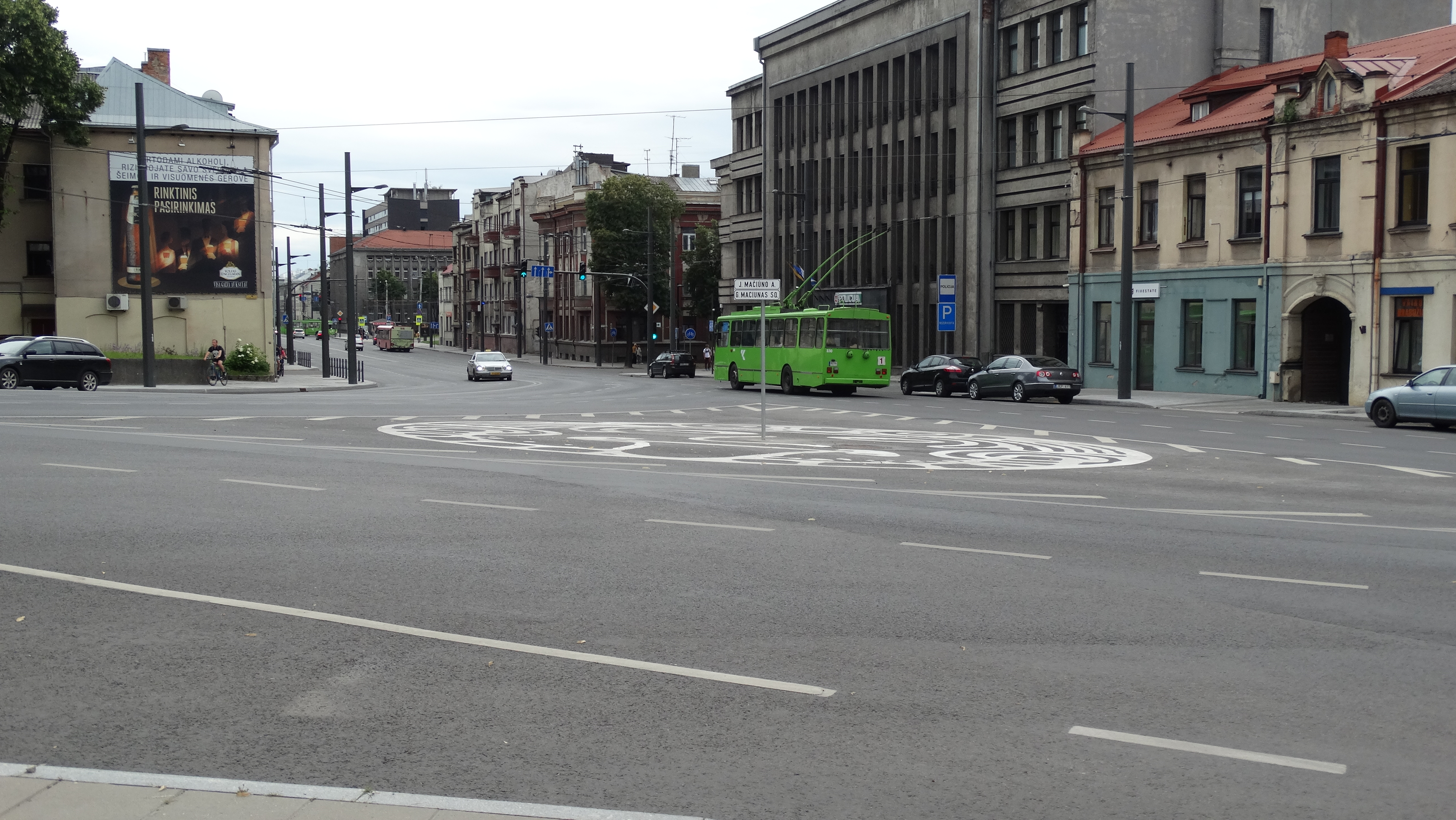 Square named after George Maciunas, Kaunas, Lithuania